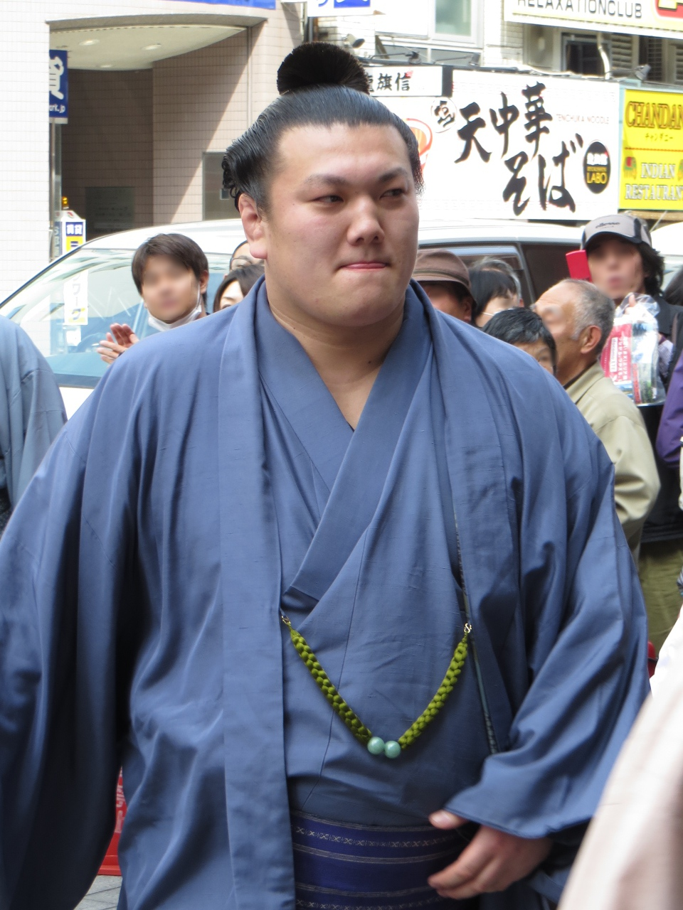 Ikioi Shōta in Haru (Spring) Basho 2013, Osaka.